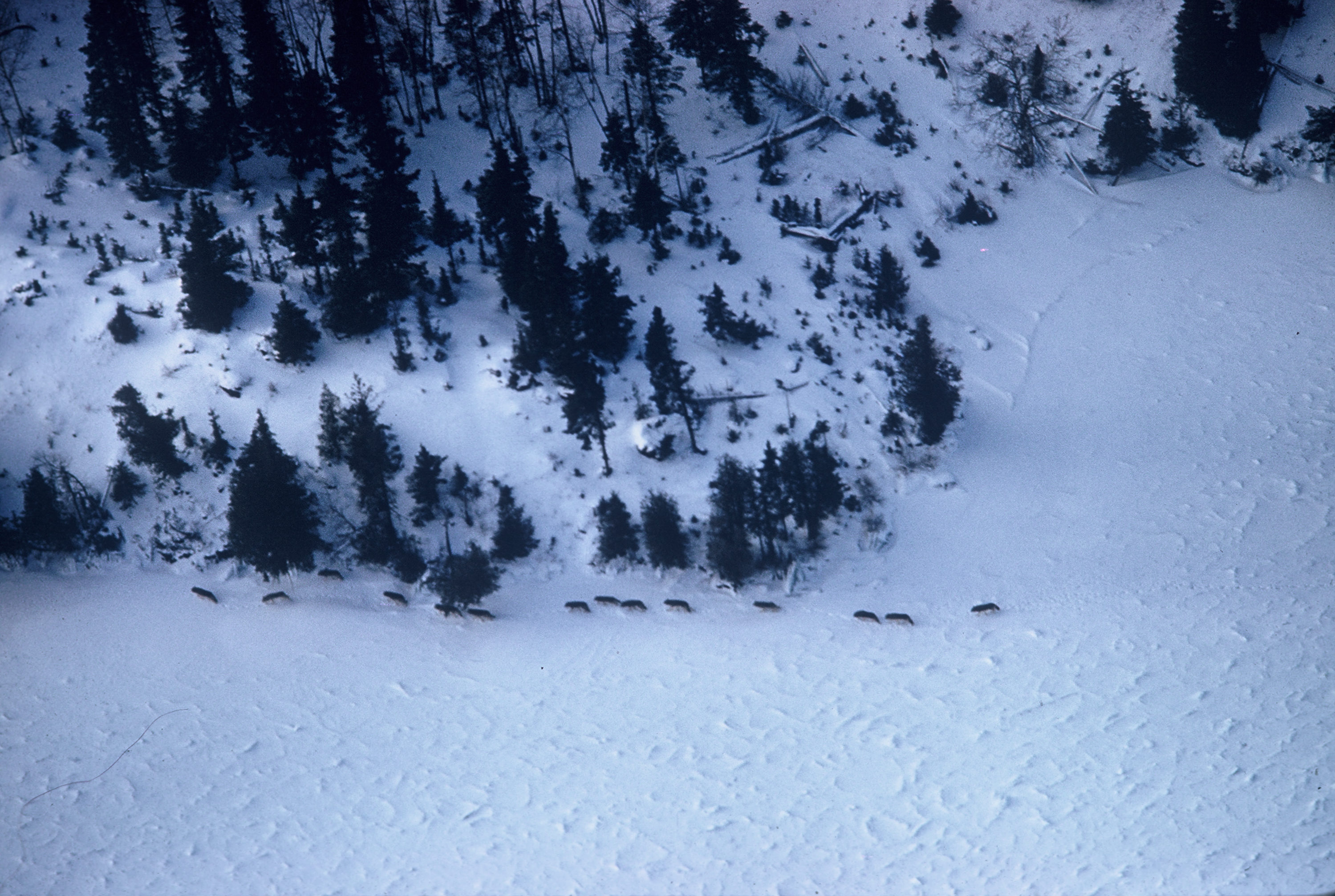 Wolf pack